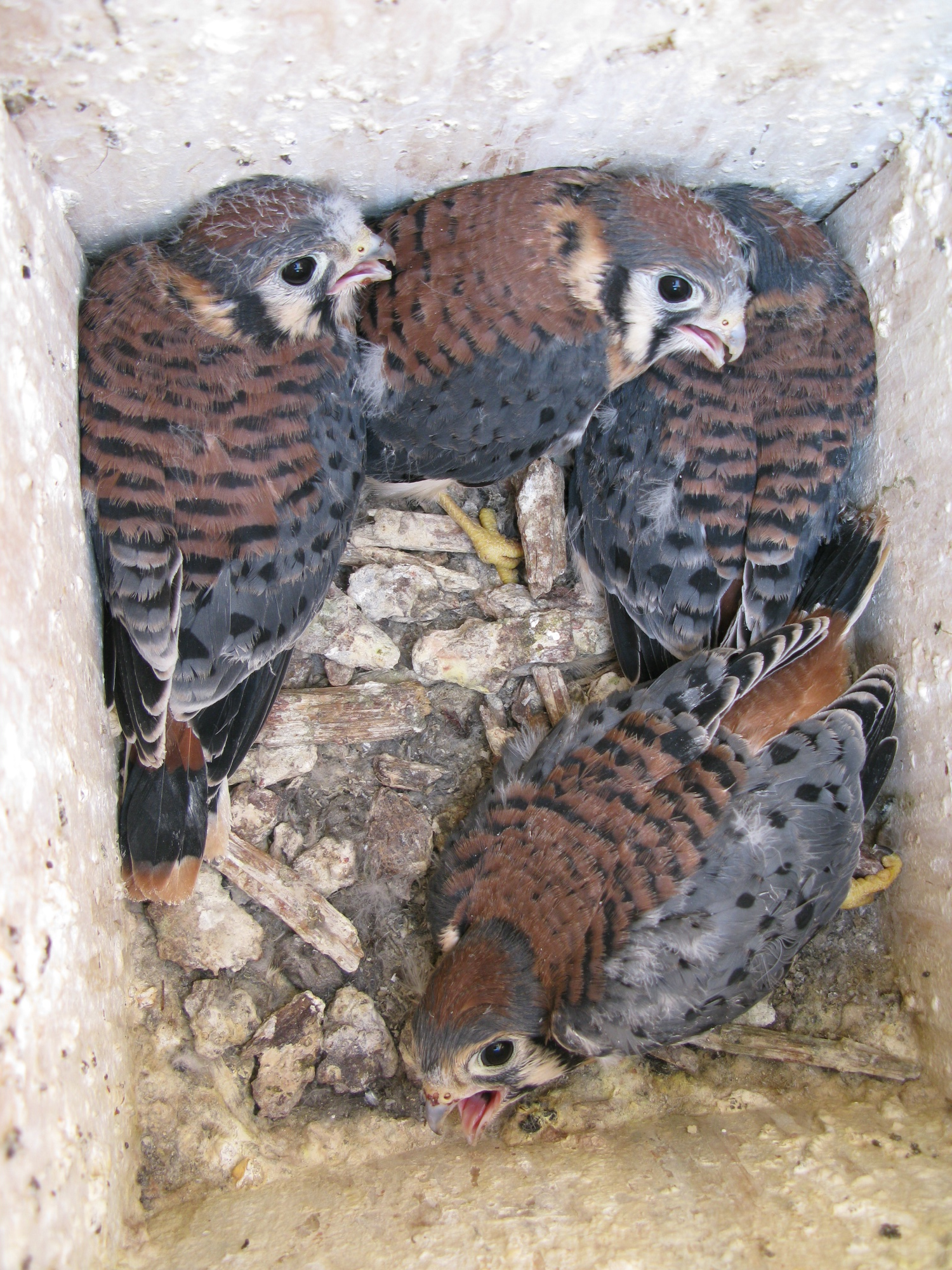 Falco sparverius chicks near fledging. Berry, Wisconsin, USA.